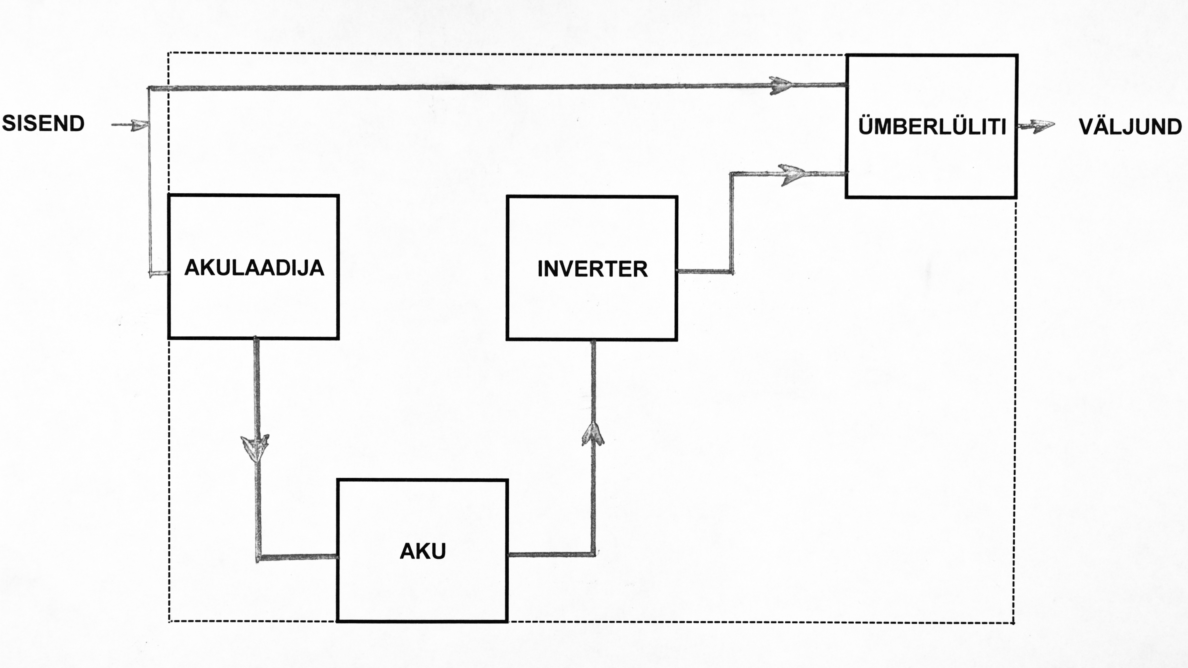 Line-Interactive UPS